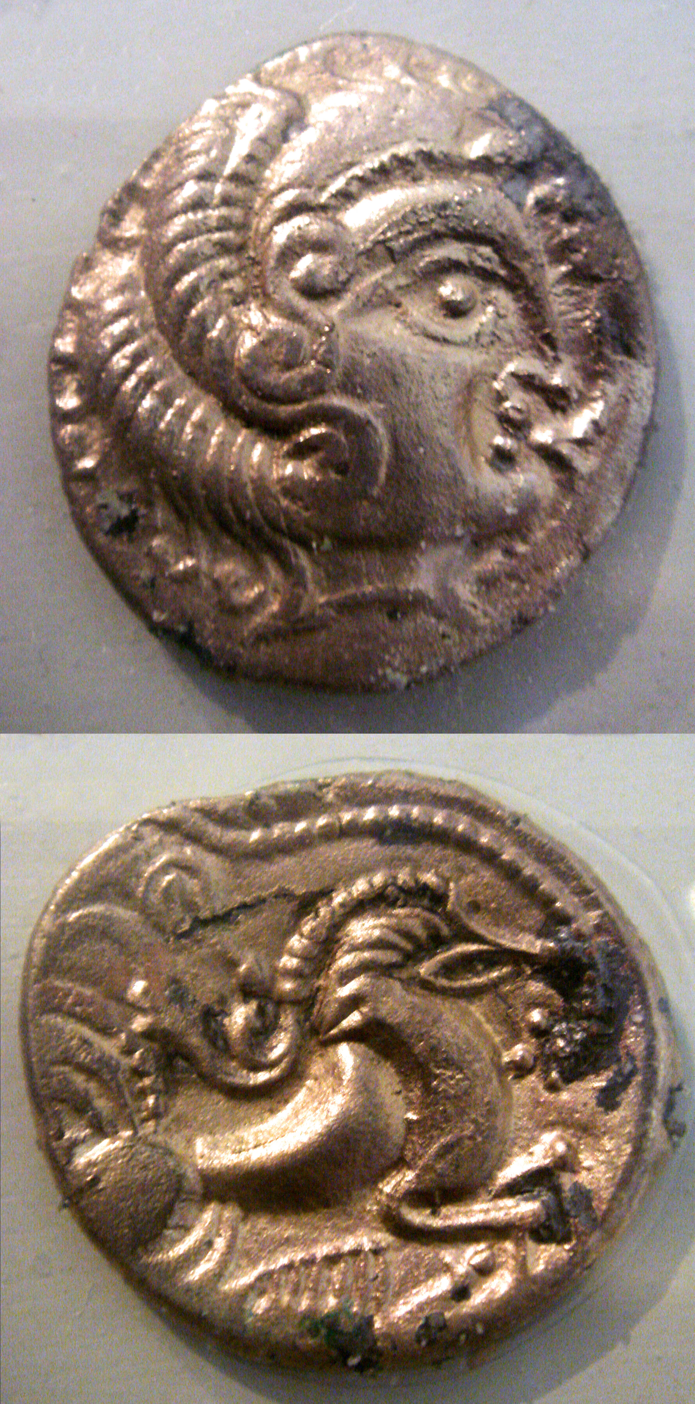 Coriosolites_coinage_5th_1st_century_BCE